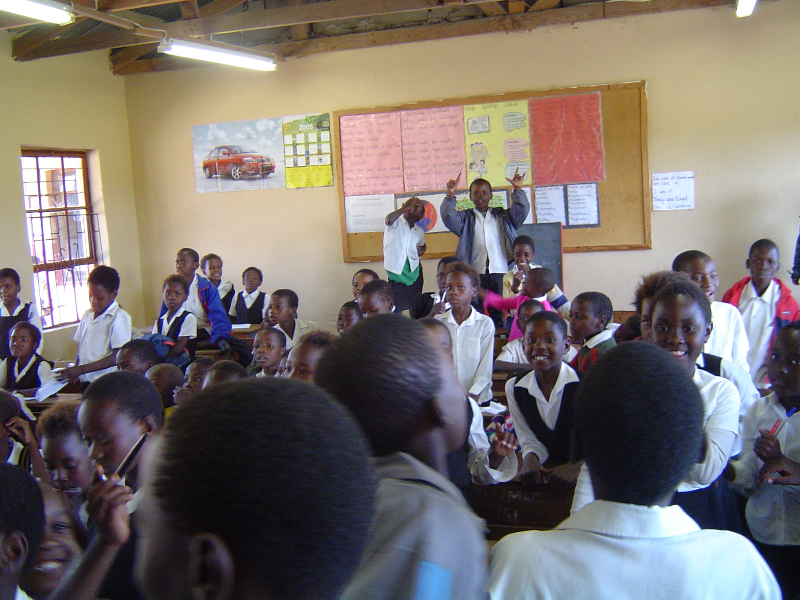 A photo taken during a school trip to the Ian Mackenzie High School in Lilydale, Gazankulu, South Africa.